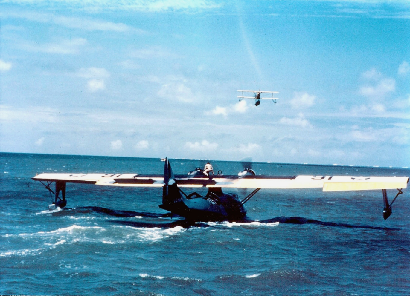 A photograph showing an early U.S. Navy Consolidated PBY Catalina taxiing at low speed. Note the crewman on wing between the engines. There is a Naval Aircraft Factory N3N Yellow Peril in flight in front of and over head.